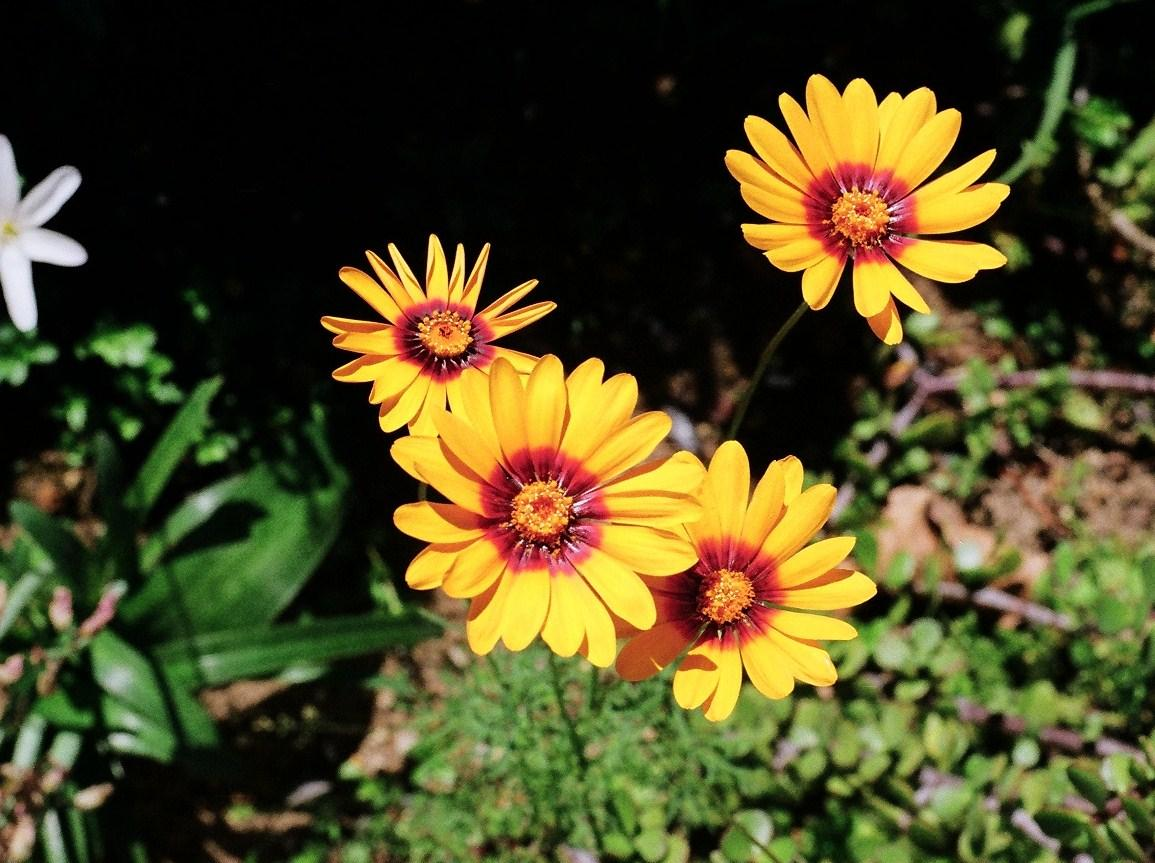 Spring Flowers